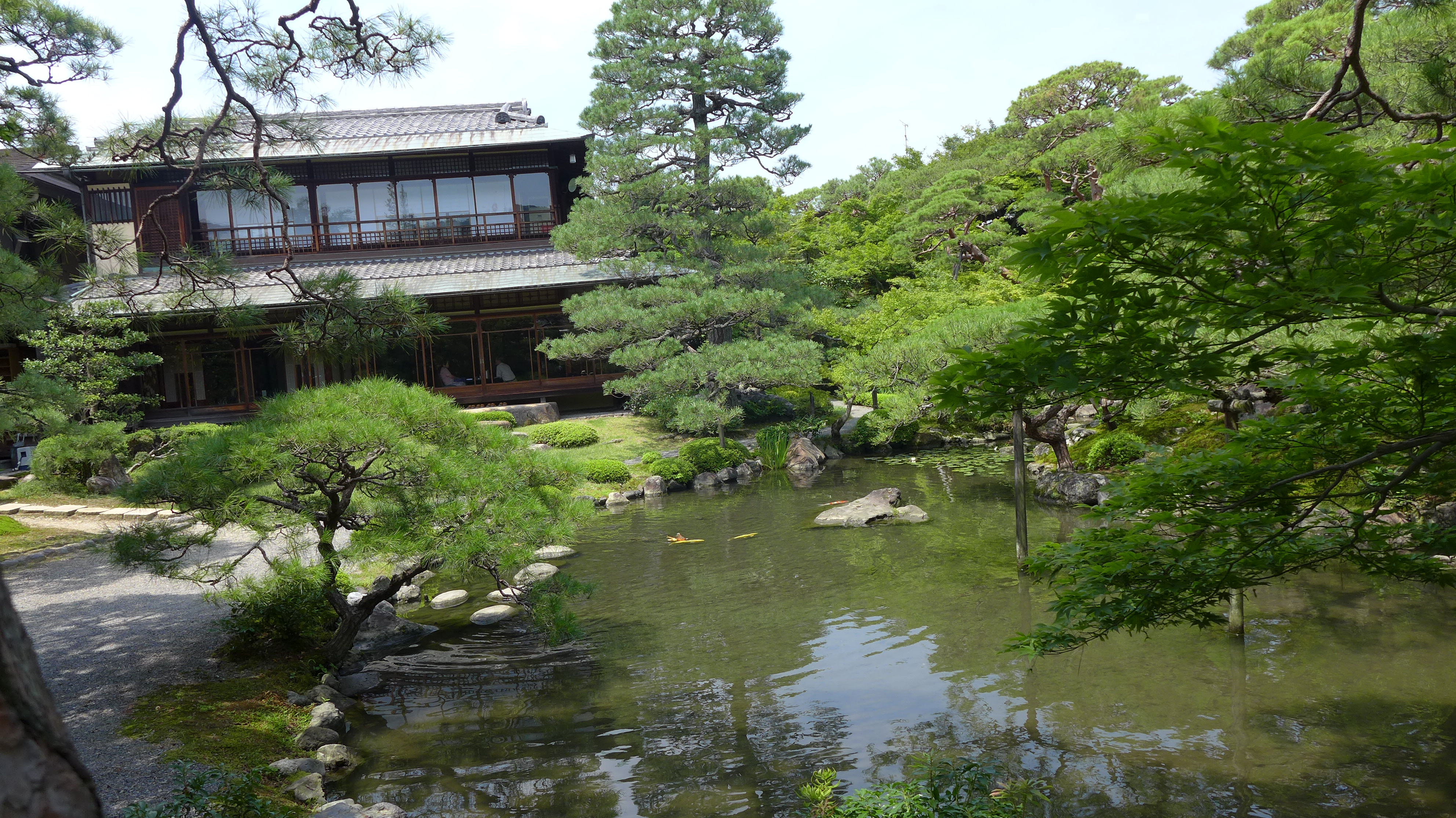 Kyoto, Japan